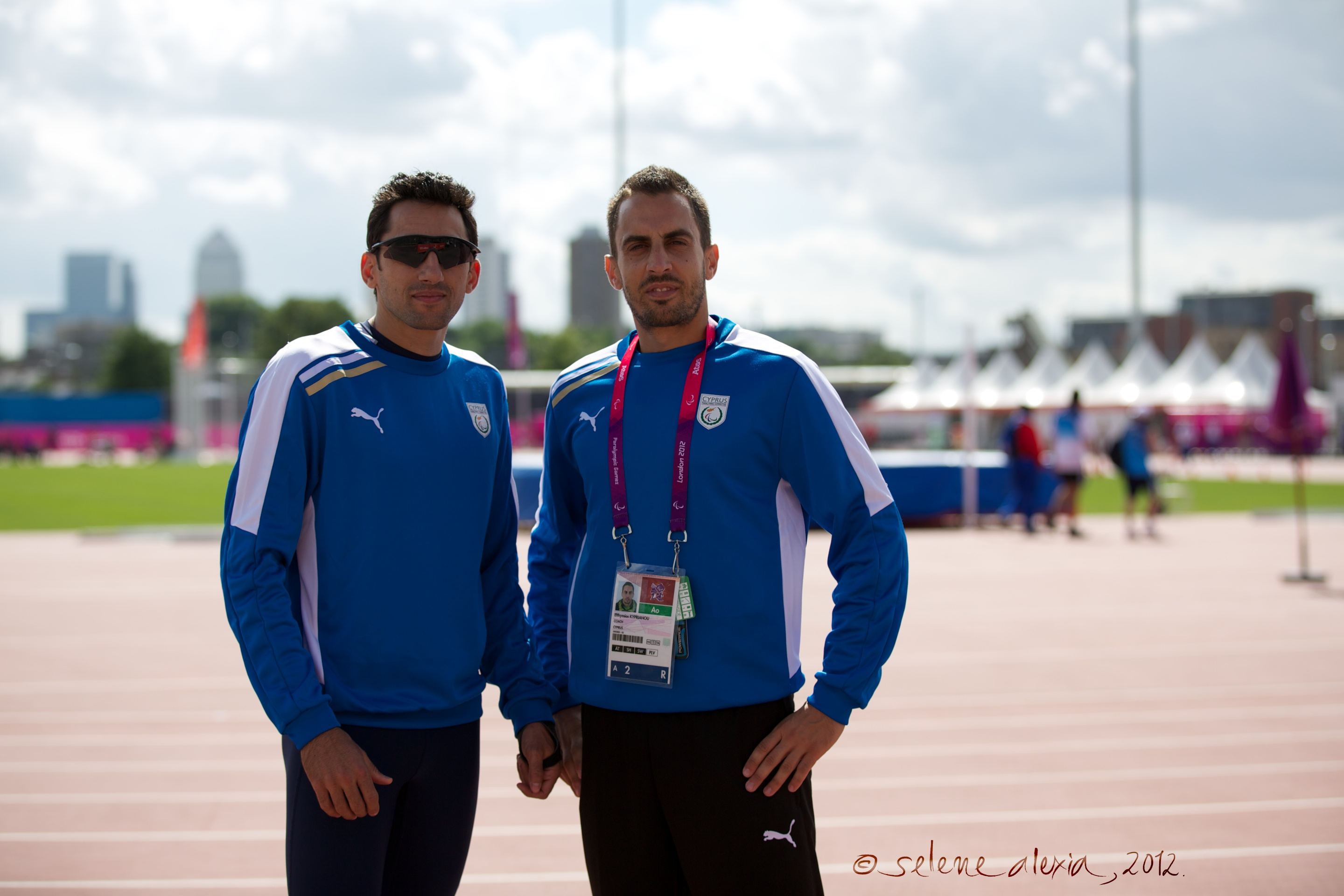 Antonis Arestis and his coach, Euthymios Kyprianou, after training for the London 2012 Paralympics. Photo by Selene Alexia.